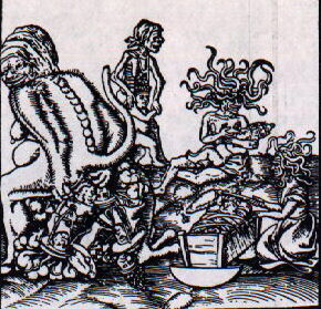 Birth and Origin of the Pope, one of a set commissioned by Martin Luther, artist Lucas Cranach, illustration for Martin Luther's "Against the Papacy at Rome, Founded by the Devil" 1545